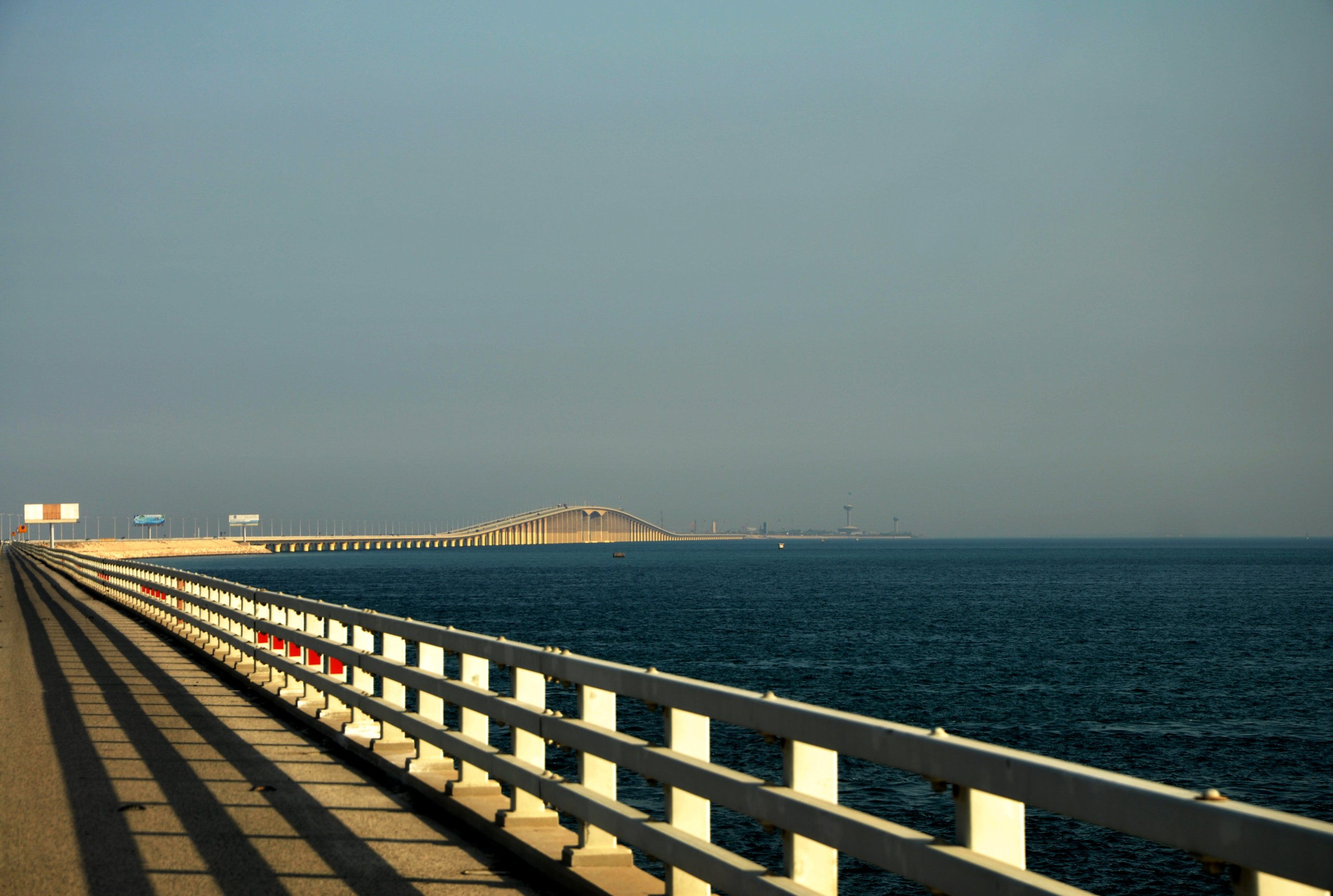 The King Fahd Causeway (Arabic: جسر الملك فهد, Jisr al-Malik Fahd) is a causeway connecting Saudi Arabia and Bahrain. The idea of constructing the causeway was based on improving the links and bonds between Saudi Arabia and Bahrain. Surveying of the maritime began in 1968, and construction began in 1981 and continued until 1986, when it was officially opened to the public. Source: Wiki The Saudi side of the border is visible on the edge of the bridge